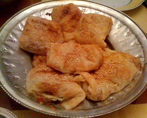 Homemade börek.